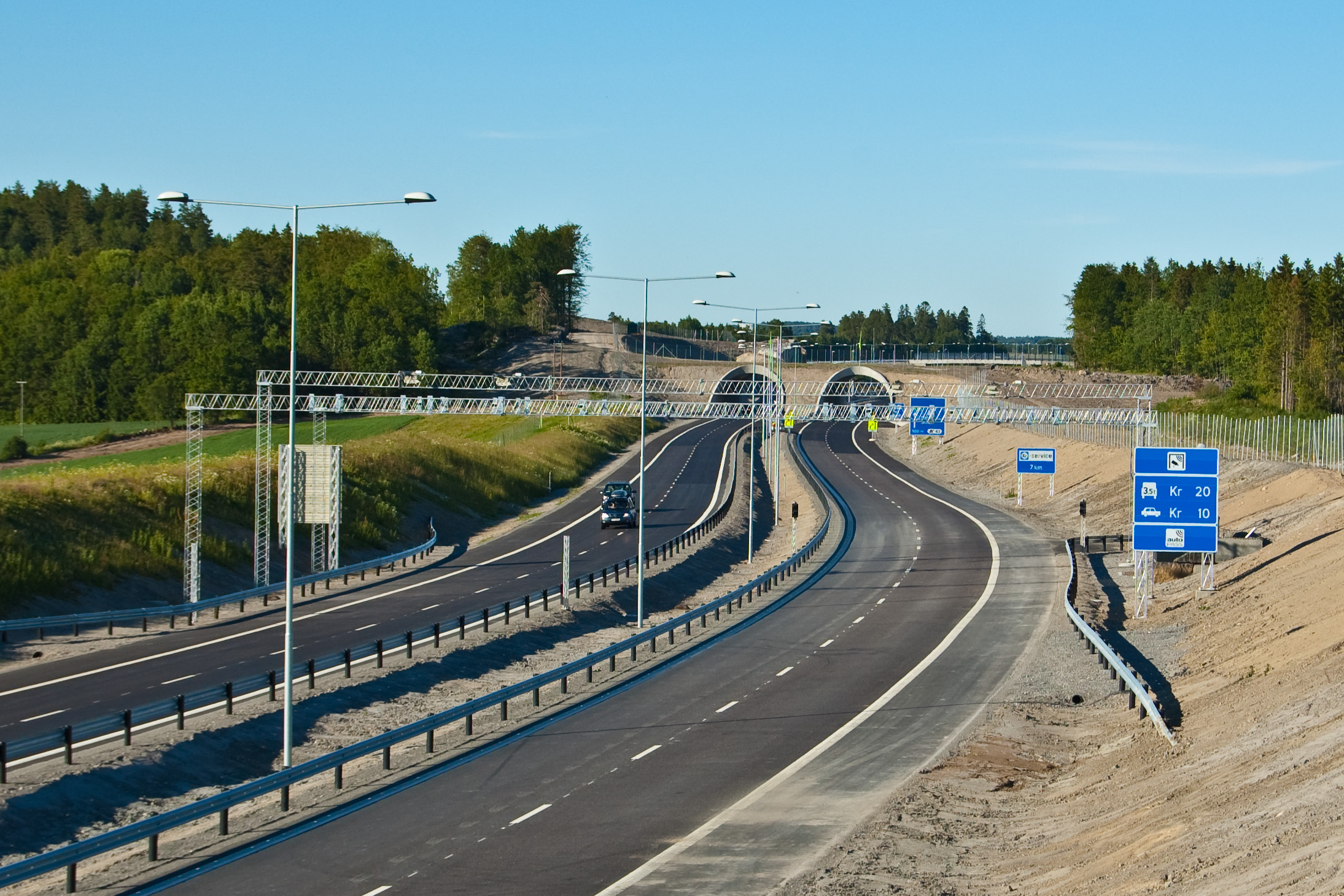 Automatic toll station, Highway E18 at Skinnmo near Larvik, Vestfold, Norway